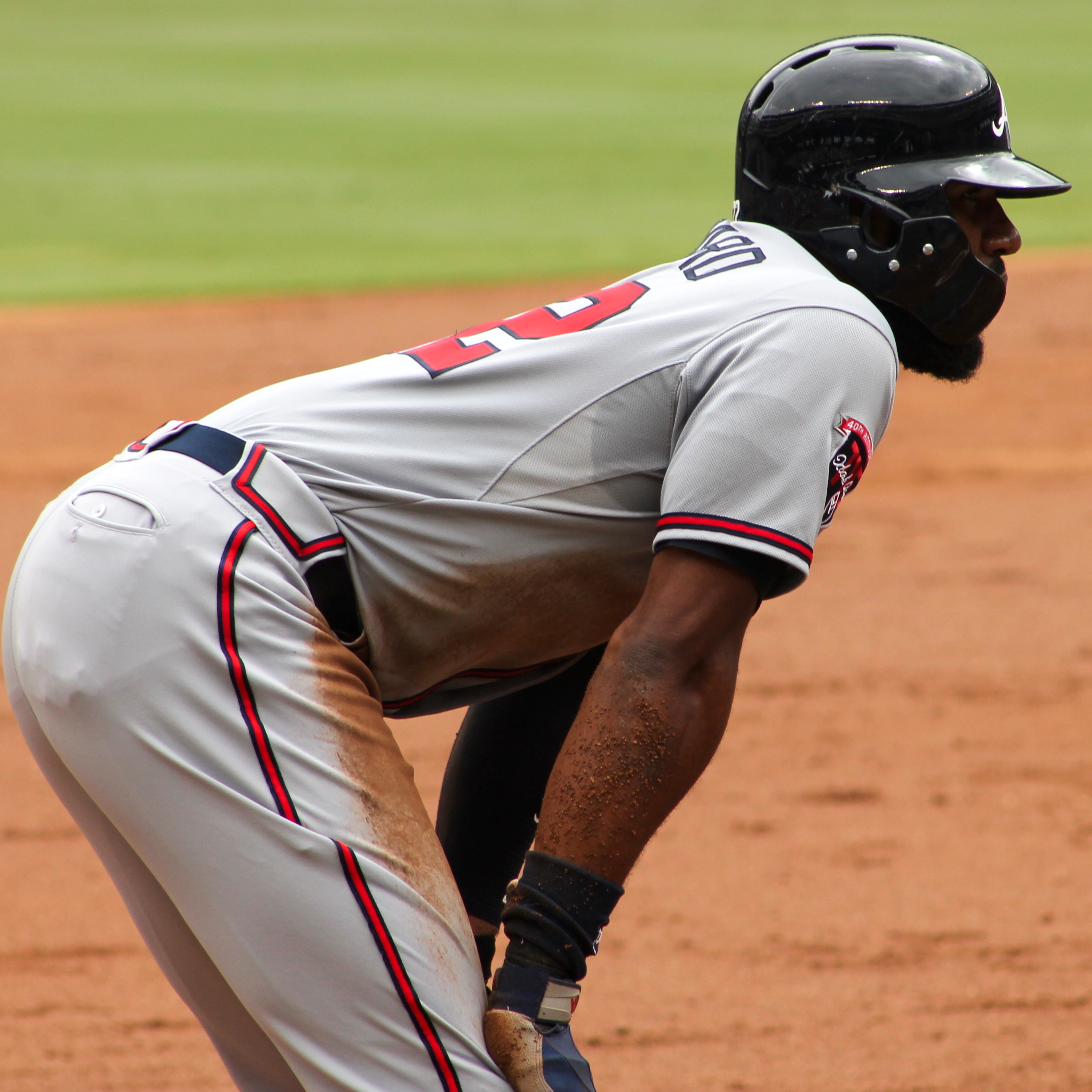 Professional baseball player Jason Heyward wearing a helmet with a protective guard during a September 2014 game.